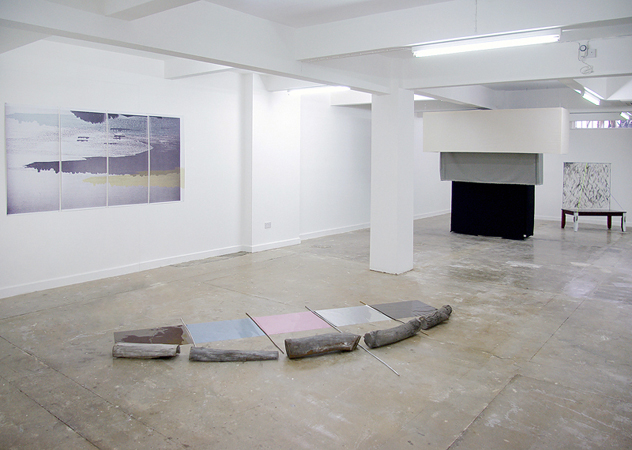 Exhibition view